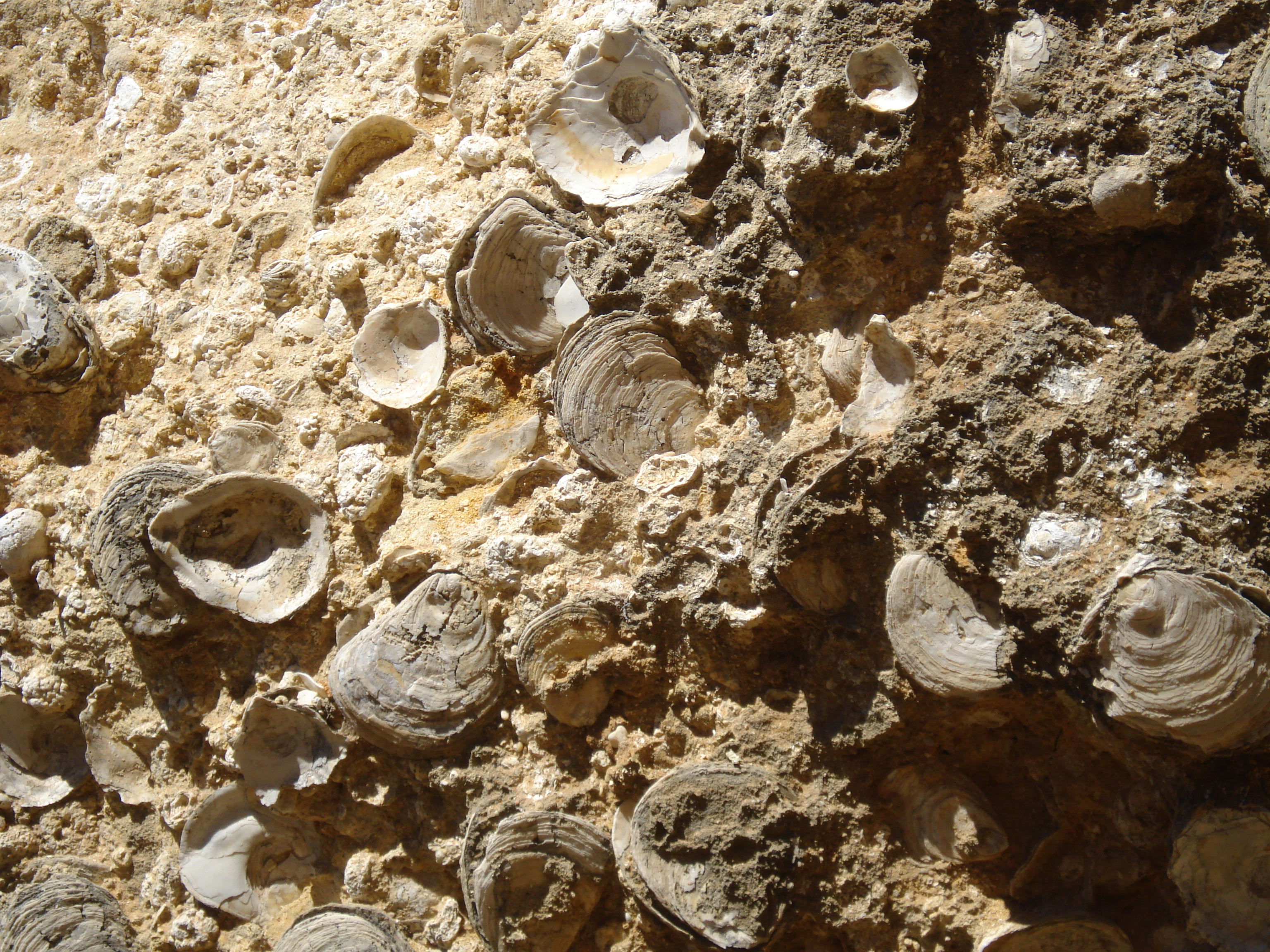 Coast near Conil de la Frontera in Spain.